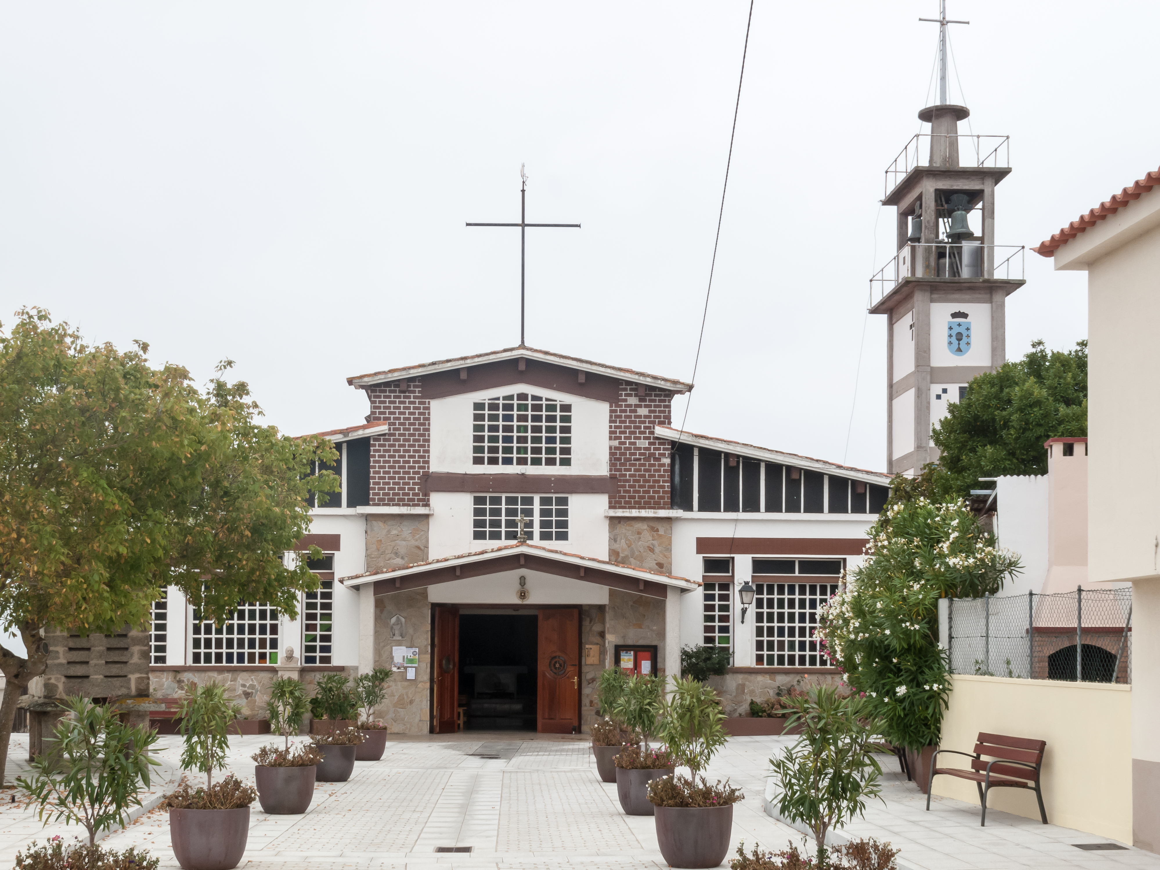 Church of Aguiño, Ribeira, Galicia, SpainGalego: Igrexa parroquial de Aguiño, Ribeira, Galiza